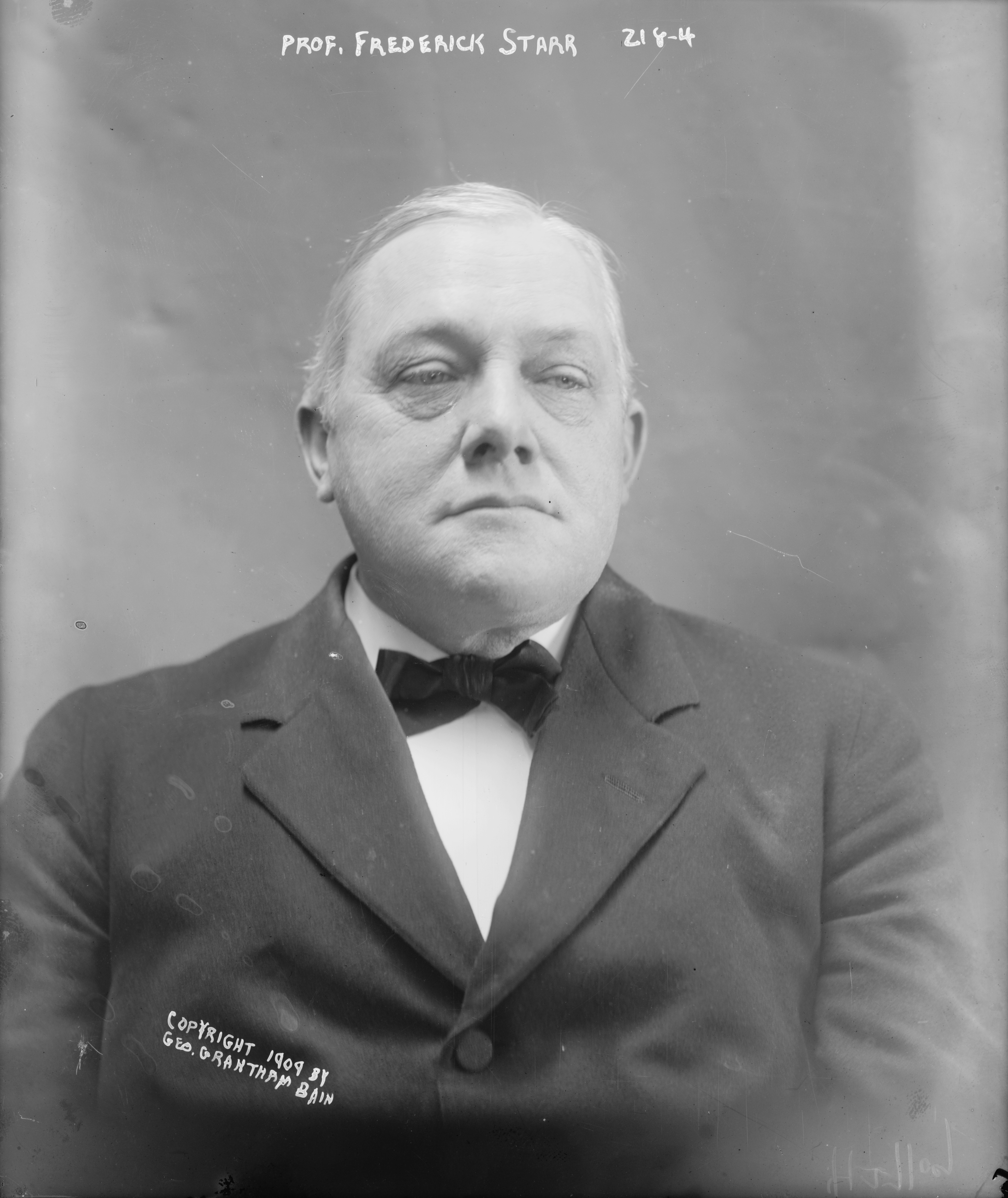 American anthropology professor Frederick Starr